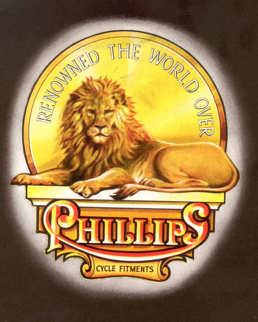 Phillips cycles trademark